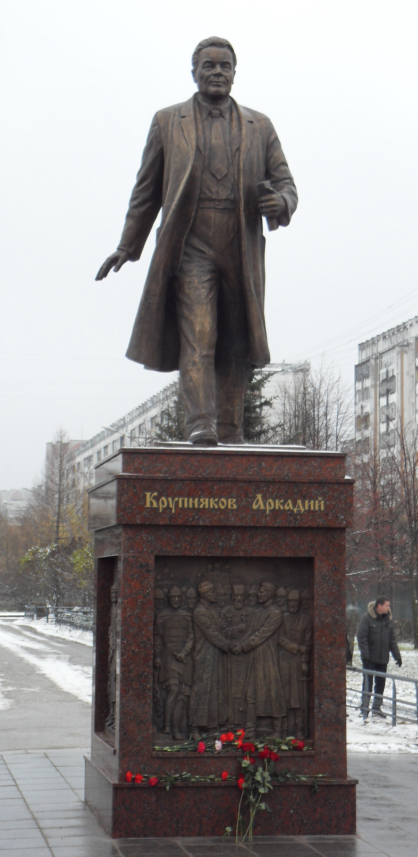 Monument to Arcady Stepanovich Krupnyakov, national writer of Mari ASSR